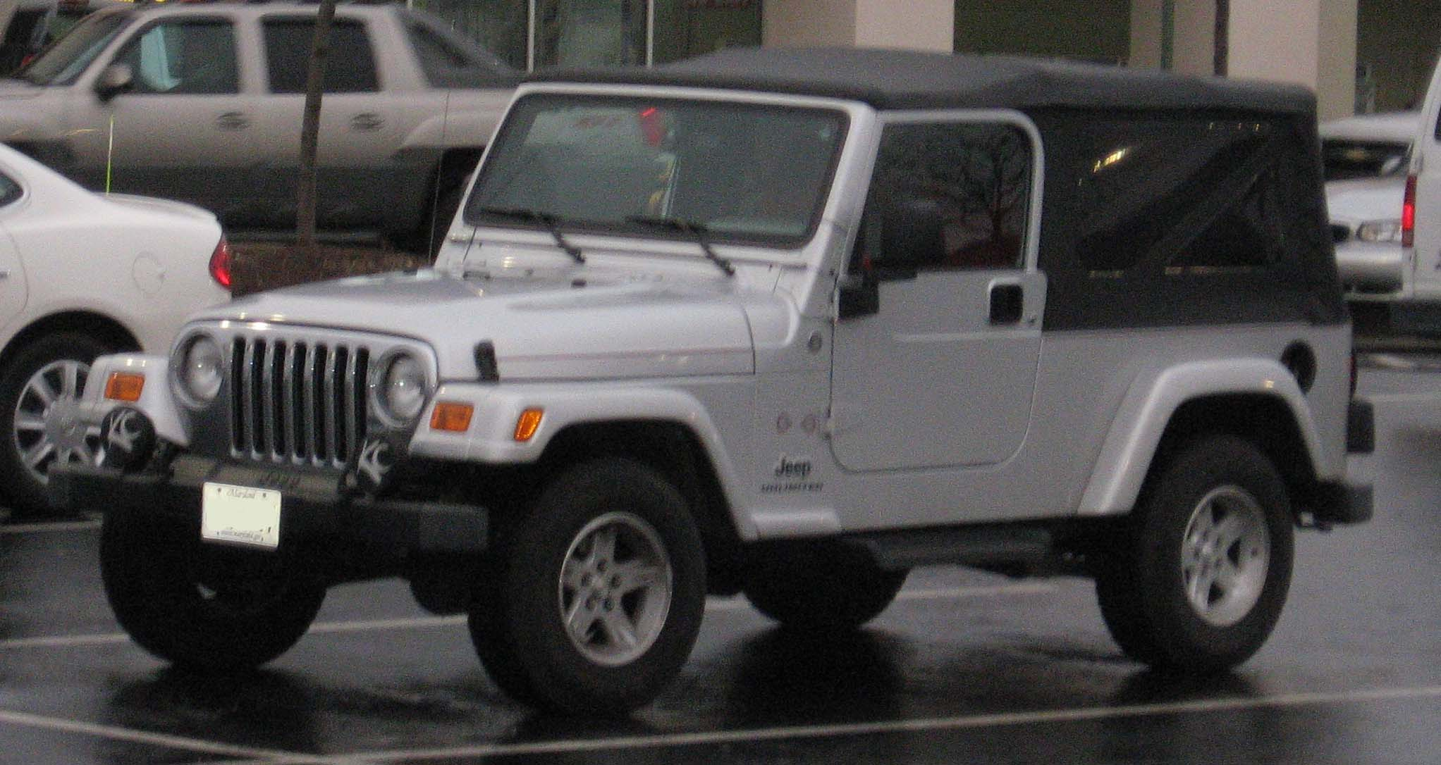 2004-2006 Jeep Wrangler Unlimited photographed in USA.